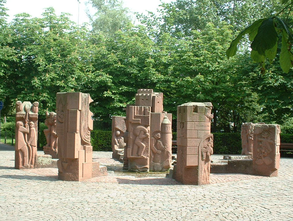 view of Ludwigshafen, Germany